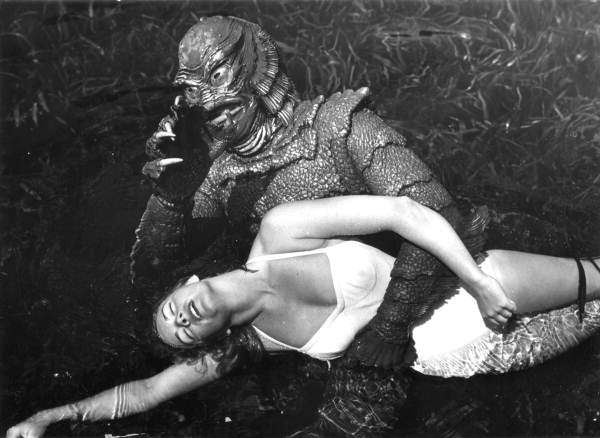 Persistent URL: Local call number: rc13412 Title: Ginger Stanley in the grip of the creature - Silver Springs, Florida Date: 1955 Physical descrip: 1 photoprint - b&w - 5 x 7 in. Series Title: Reference Collection Repository: State Library and Archives of Florida, 500 S. Bronough St., Tallahassee, FL 32399-0250 USA. Contact: 850.245.6700.